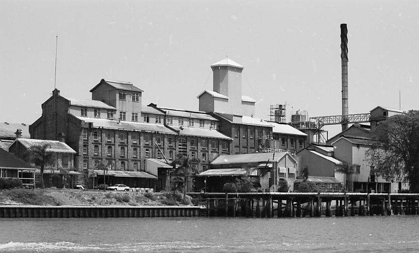 Colonial Sugar Refinery (CSR), 1991, New Farm, (now Cutters Landing) City Archives, Brisbane City Council